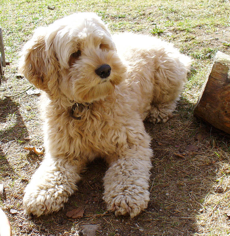 Cockerpoo